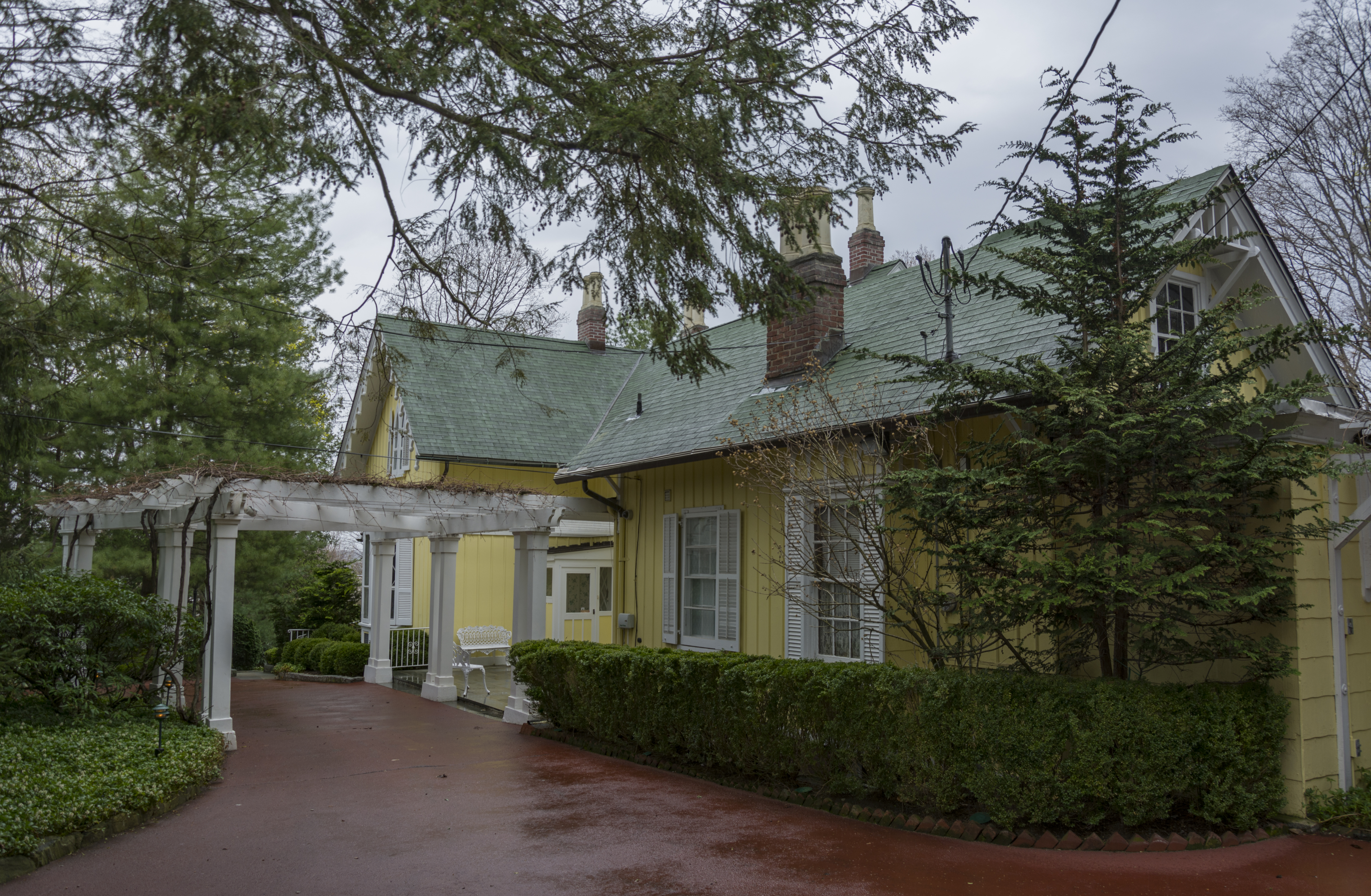 The Newington-Cropsey Foundation's property Ever Rest, the home of Jasper Cropsey, now a historic house museum. I took many more photos here, contact me on my talk page or email if you would like more.